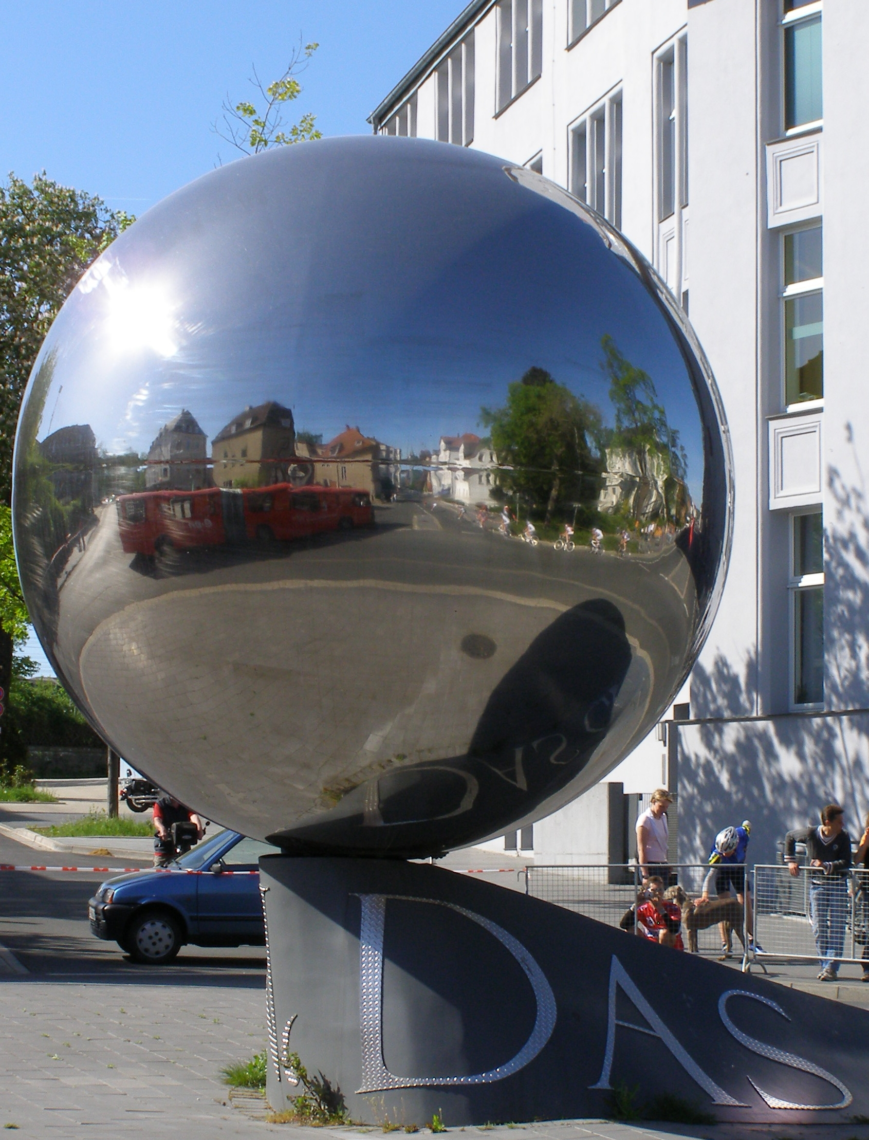 Sculpture La Palla by Luciano Fabro in town of Herford, District of Herford, North Rhine-Westphalia, Germany.